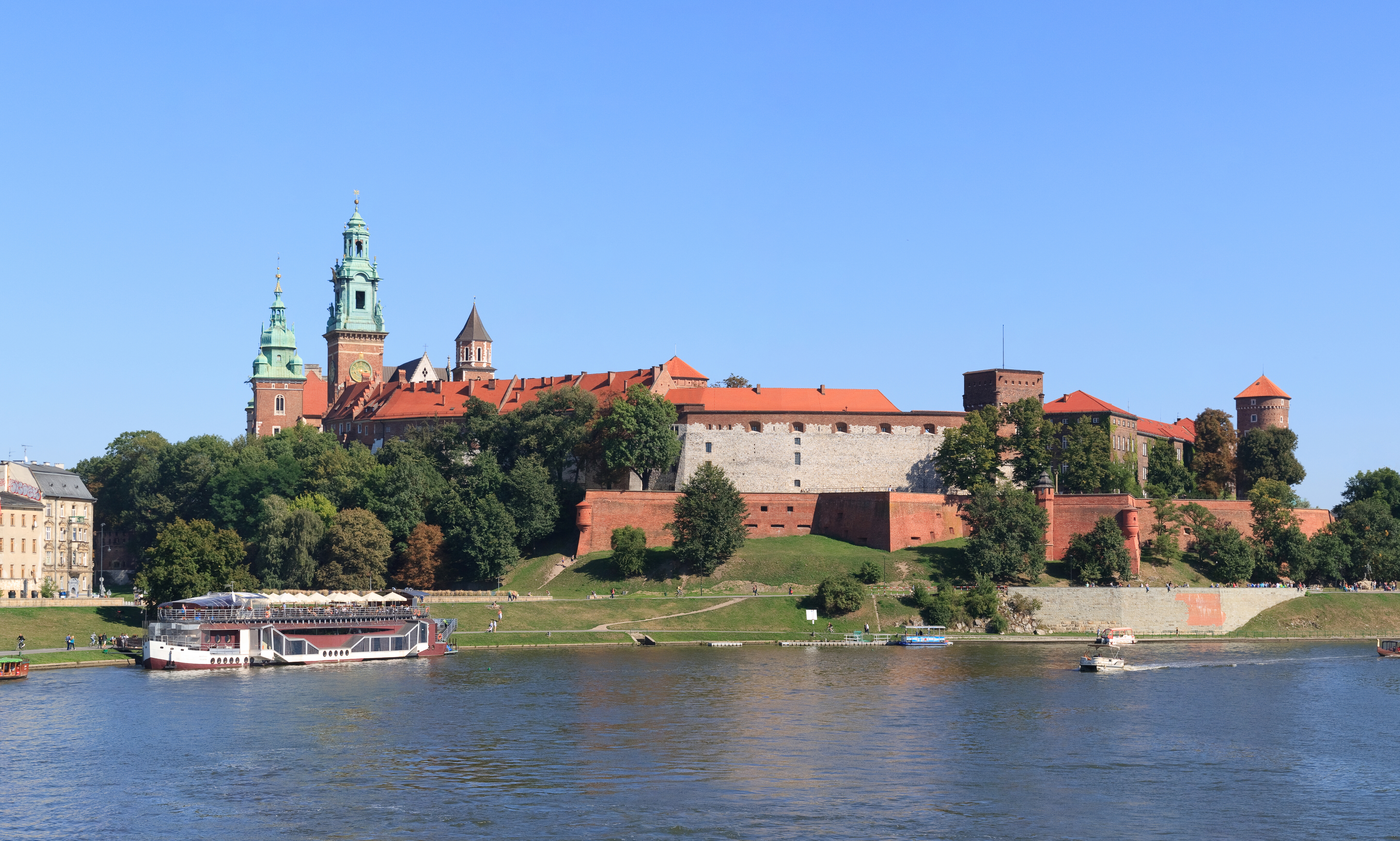 Wawel Castle, Krakow